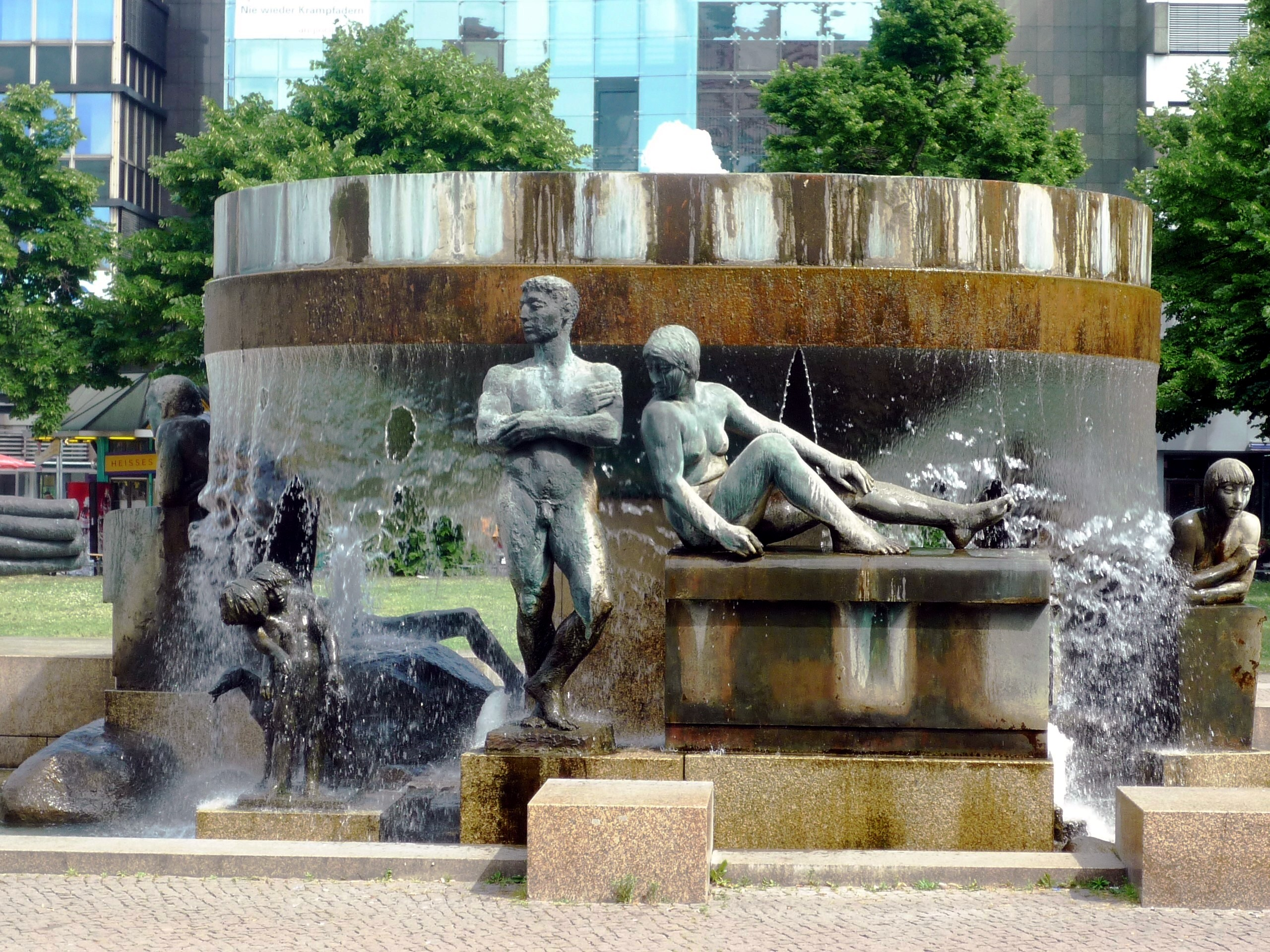 Fountain at Wittenbergplatz (Southern part) in Berlin Schöneberg (Germany). Design and sculptures by Waldemar Grzimek (1918-1984).